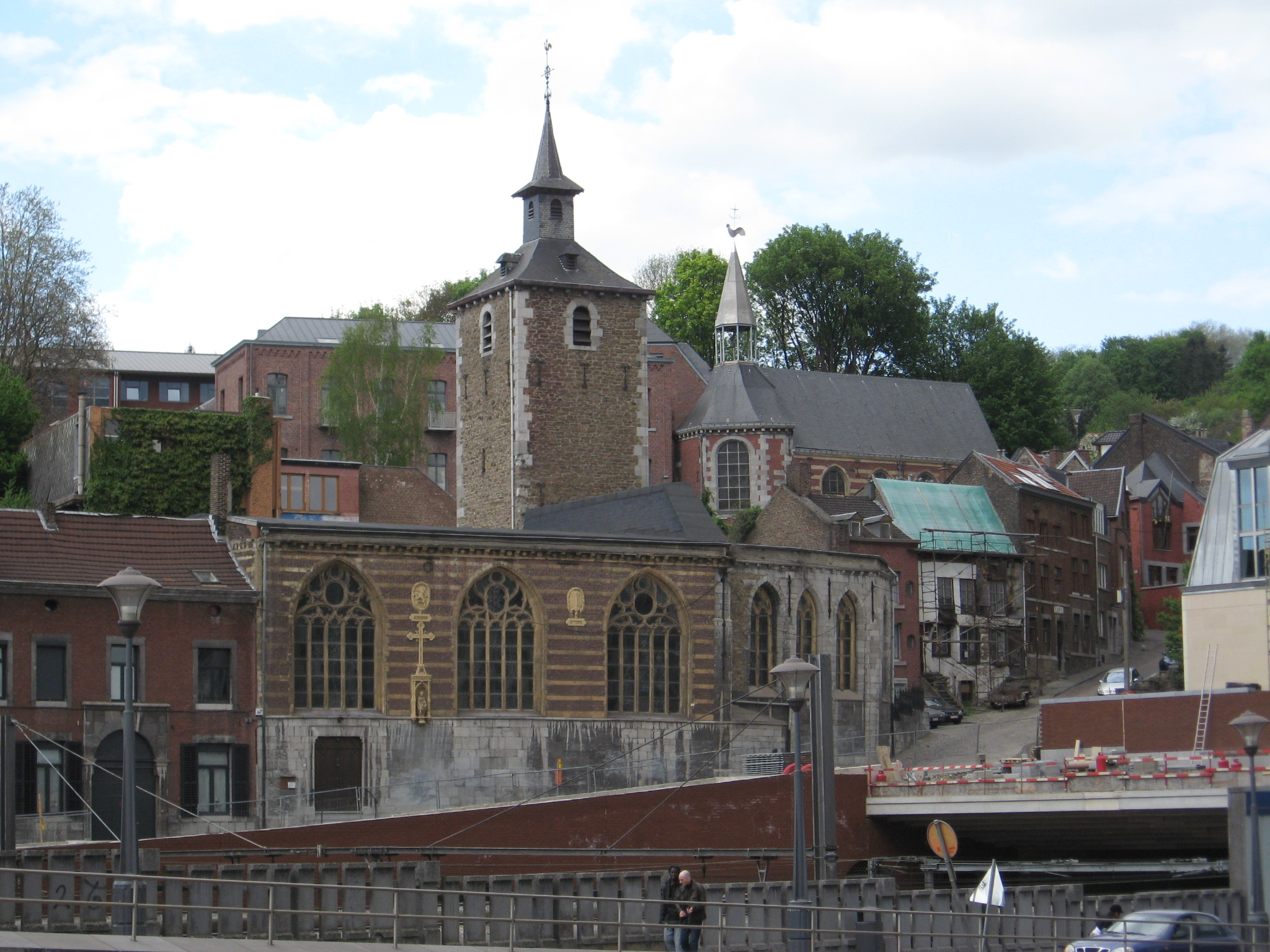 Church of Saint Servatius in Liège, Belgium